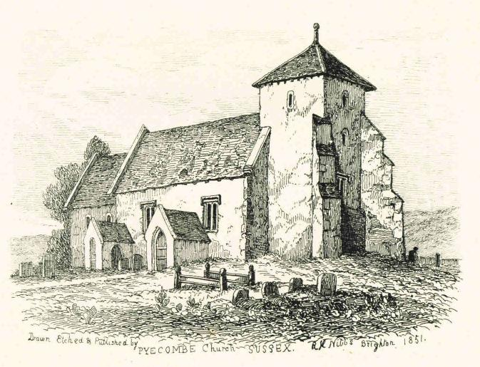 Etching by R. H. Nibbs (1816 - 1893) of parish church at Pyecombe, Sussex, England